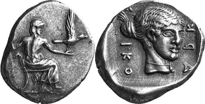 Tegea .The 5th century coinage of Tegea under the Arcadia. Hemidrachm (Silver, 2.98 g 9), c. 460-450. Zeus Lykaios, laureate and seen partially from behind, seated right on low throne with swan’s head at the top of the backrest, holding long scepter in his left hand and with eagle standing right with spread wings on his right. Rev. Head of Kallisto, three-quarter facing to right, wearing pendant necklace and with her hair bound with a taenia and tied in a bun at the back; all within incuse square. BMFA 1247 var. Kunstfreund 158 (this coin). McClean 6927 var. Williams – (III, 3, 196 var.; obverse 135 but with a new reverse die). Extremely rare. A magnificent coin of the finest early Classical style, with a reverse die struck in very high relief. Extremely fine. From the collection of C. Gillet, Bank Leu/Münzen und Medaillen, Kunstfreund, 28 May 1974, 158. The wonderful reverse die of this coin was engraved by a great master and served as the prototype for all the other facing heads of Williams Period III, Section 3 hemidrachms. It is undoubtedly one of the great masterpieces of Greek coinage from the mid 5th century B.C. LHS96, 1715.